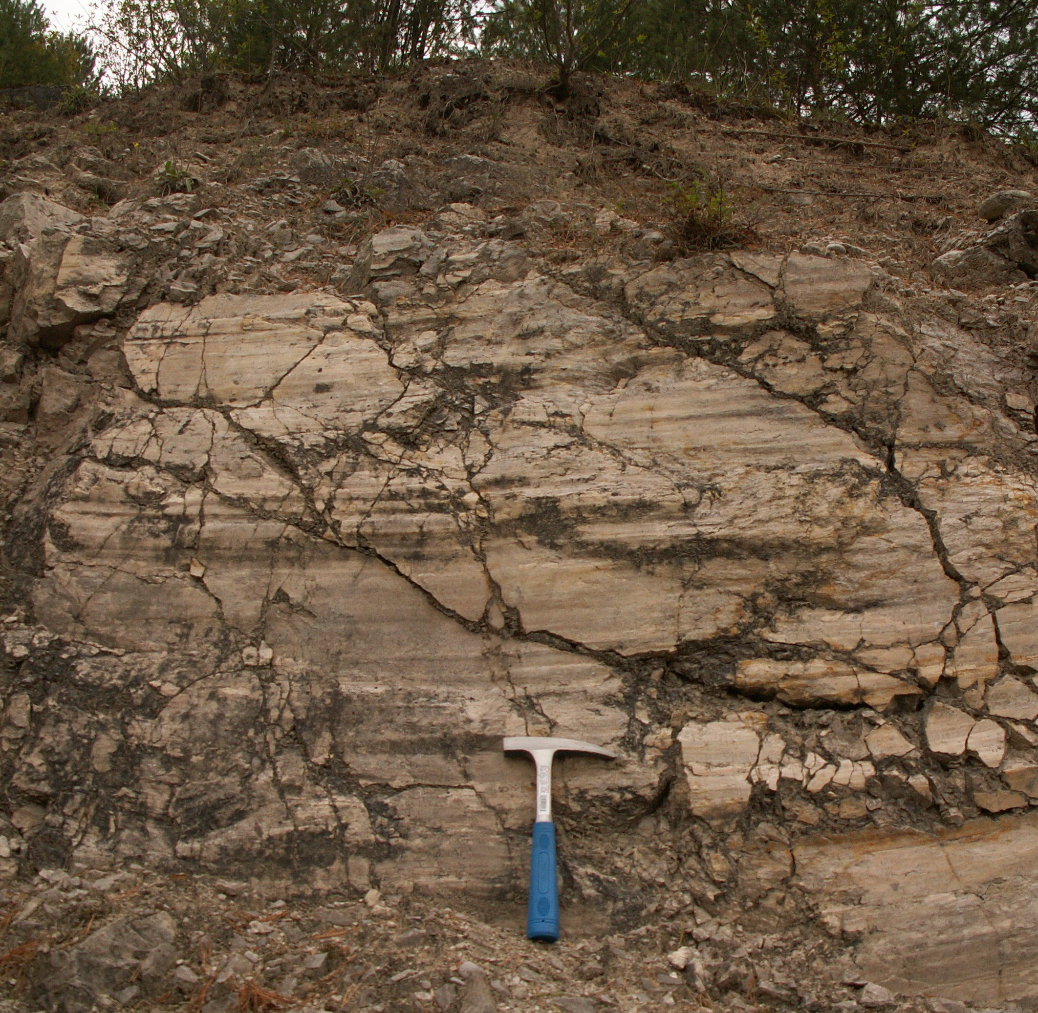 Slickensides in Triassic dolostone (in situ), sand pit Dolinka pri Hradišti pod Vrátnom, Hronic nappe, Malé Karpaty, Western Slovakia. Geological hammer is 28 cm long.